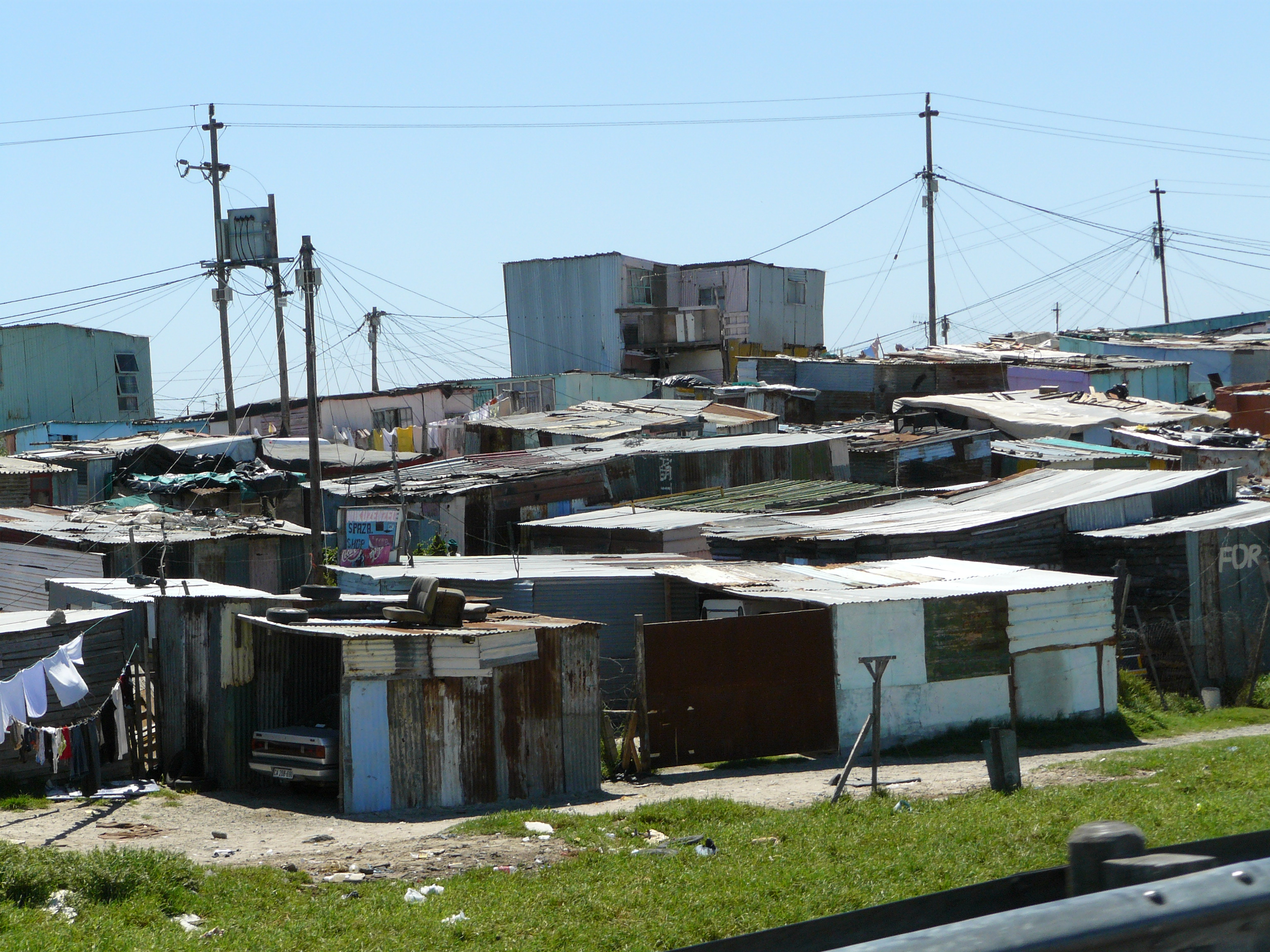 Khayelitsha Township, Western Cape